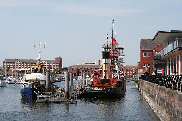 Swansea: marina. Tugs and a lightship – under scaffolding – moored by the National Waterfront Museum. Looking west-south-west